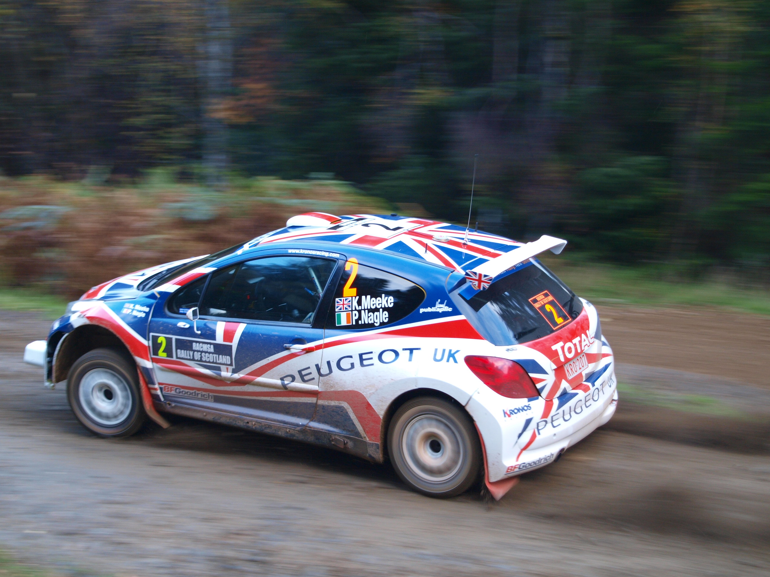 Kris Meeke in the Peugeot 207 on SS4 Drummond Hill during the 2010 Rally Scotland